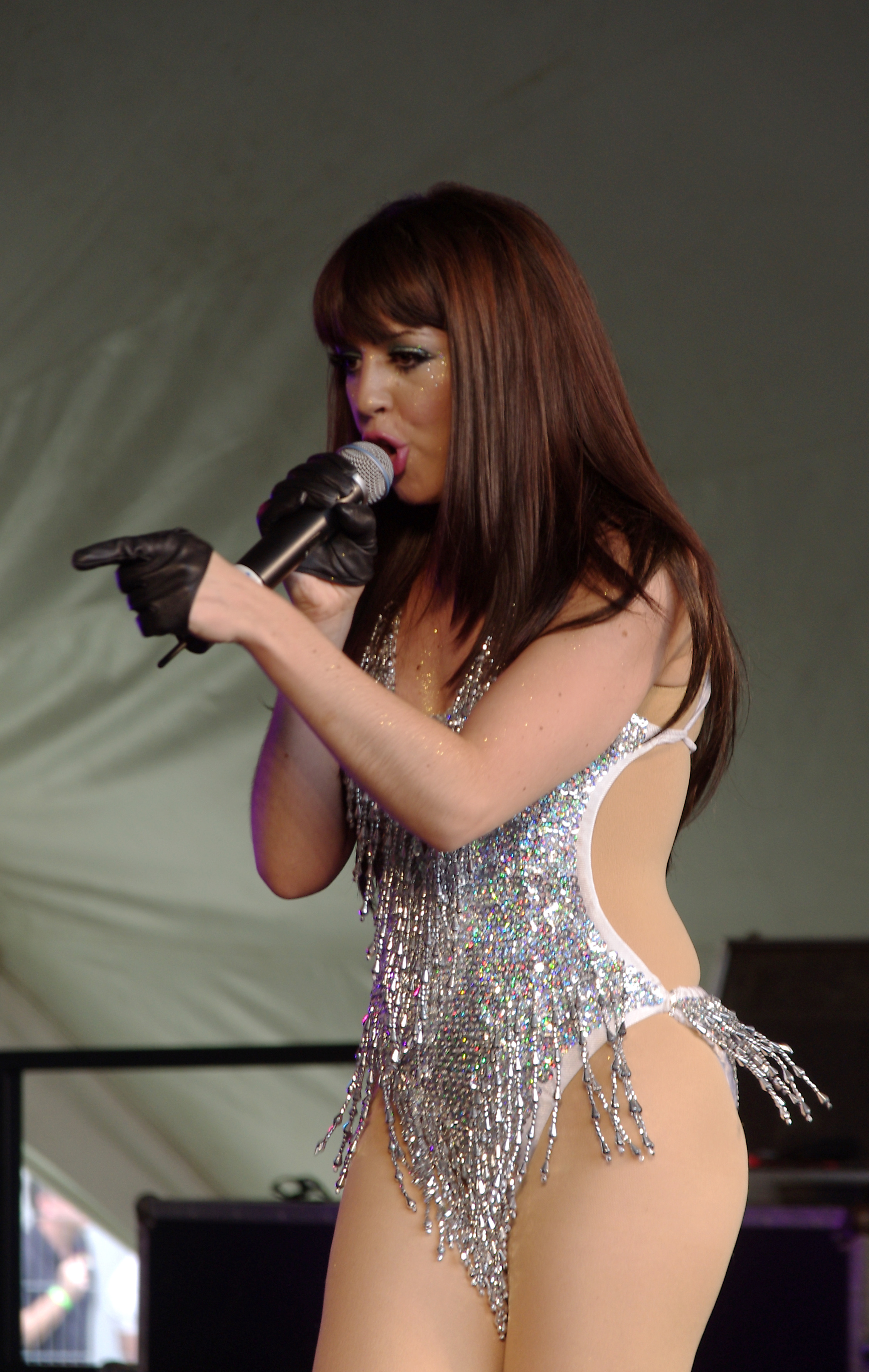 Ruby White performs on the main stage at Cardiff Mardi Gras.